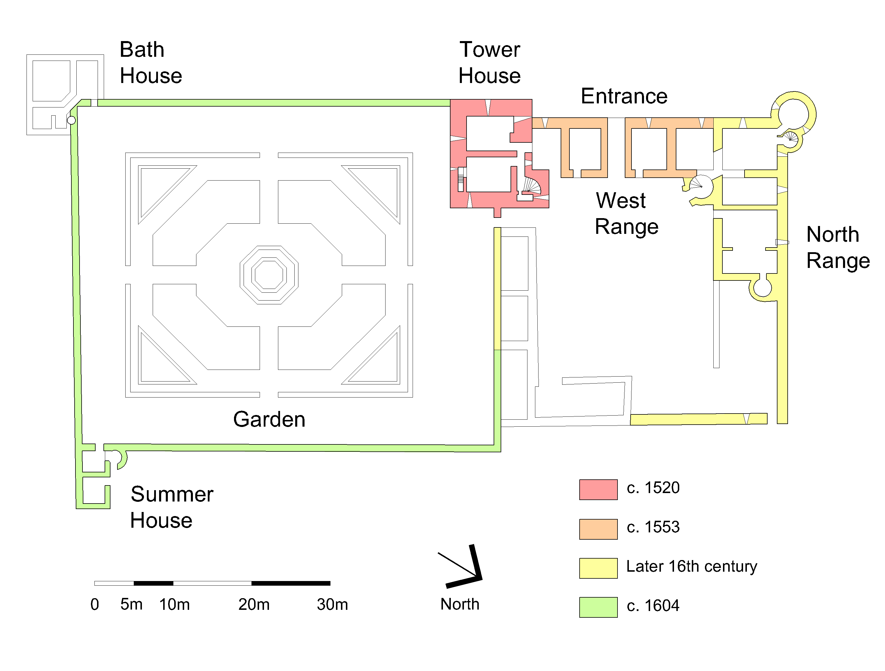 Ground floor plan of Edzell Castle, Angus, Scotland, showing phases of Construction.